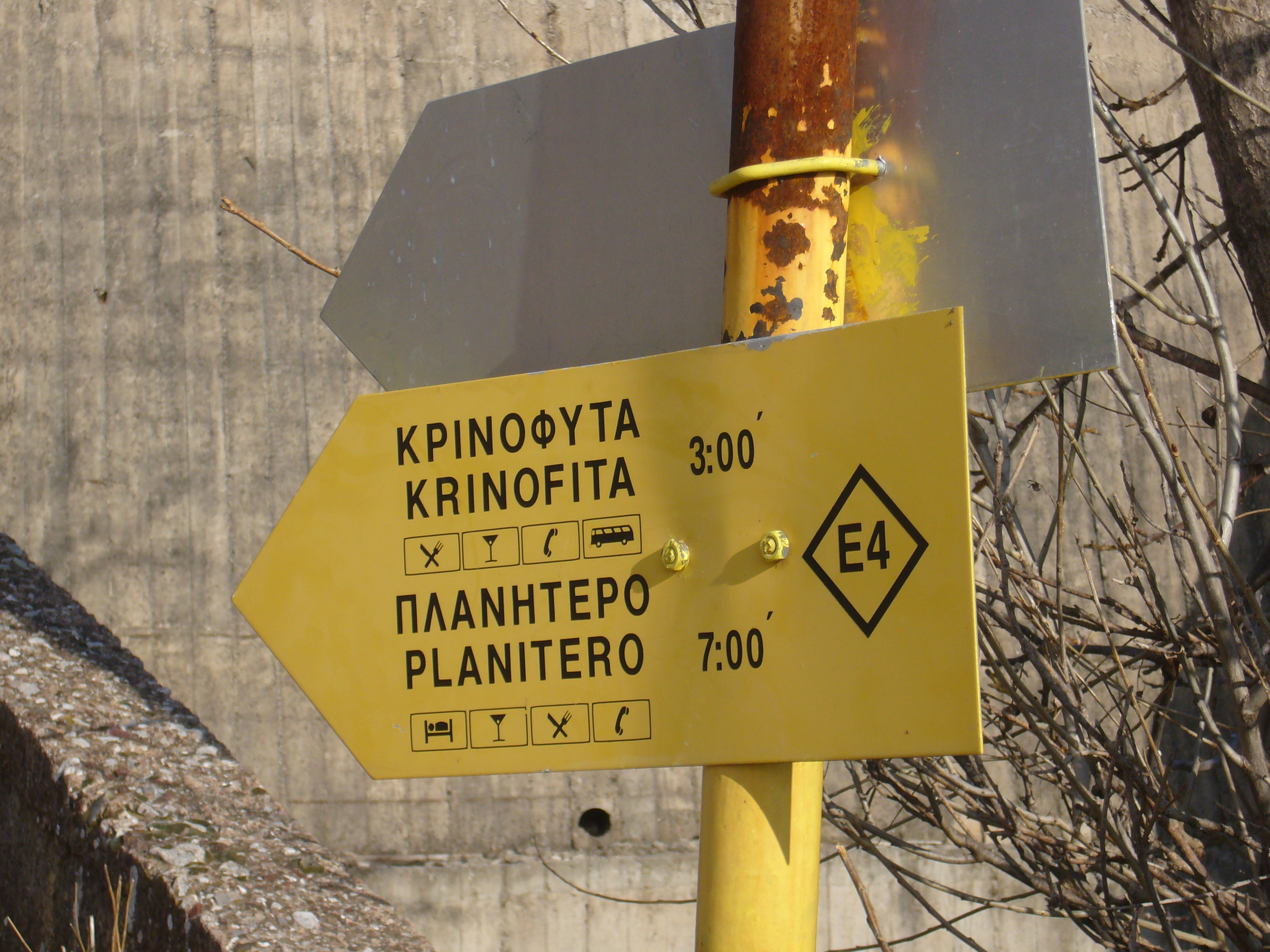 Route sign on the E4 trail in Greece.